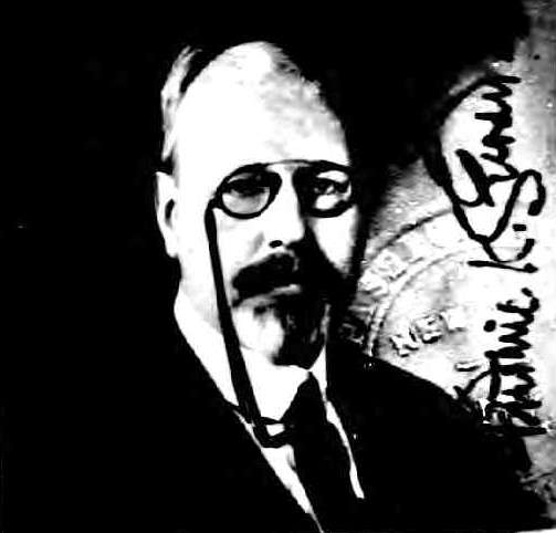 Frederick Kimber Seward from his 1925 passport application Source NARA